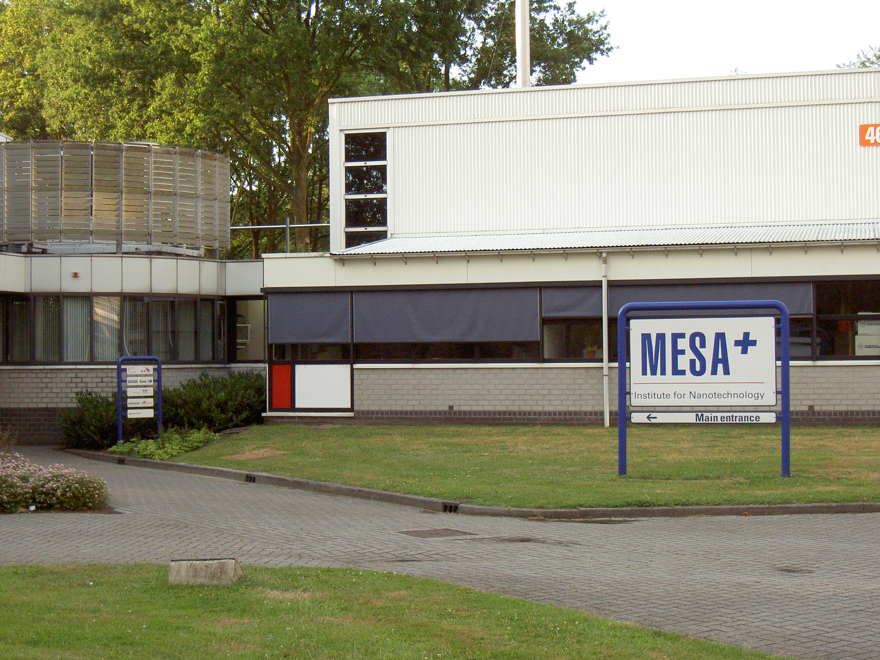 Entrance of the Mesa+ building.